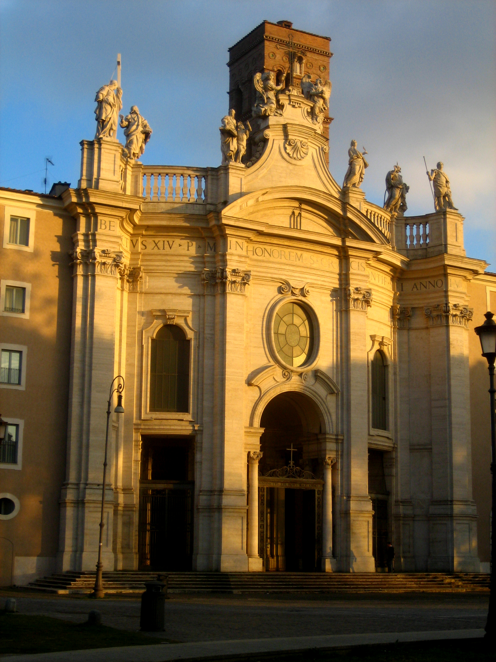 Santa Croce in Gerusalemme (Rome) One of the masterpieces of the "barochetto romano", by Pietro Passalacqua and Domenico Gregorini, from 1743.